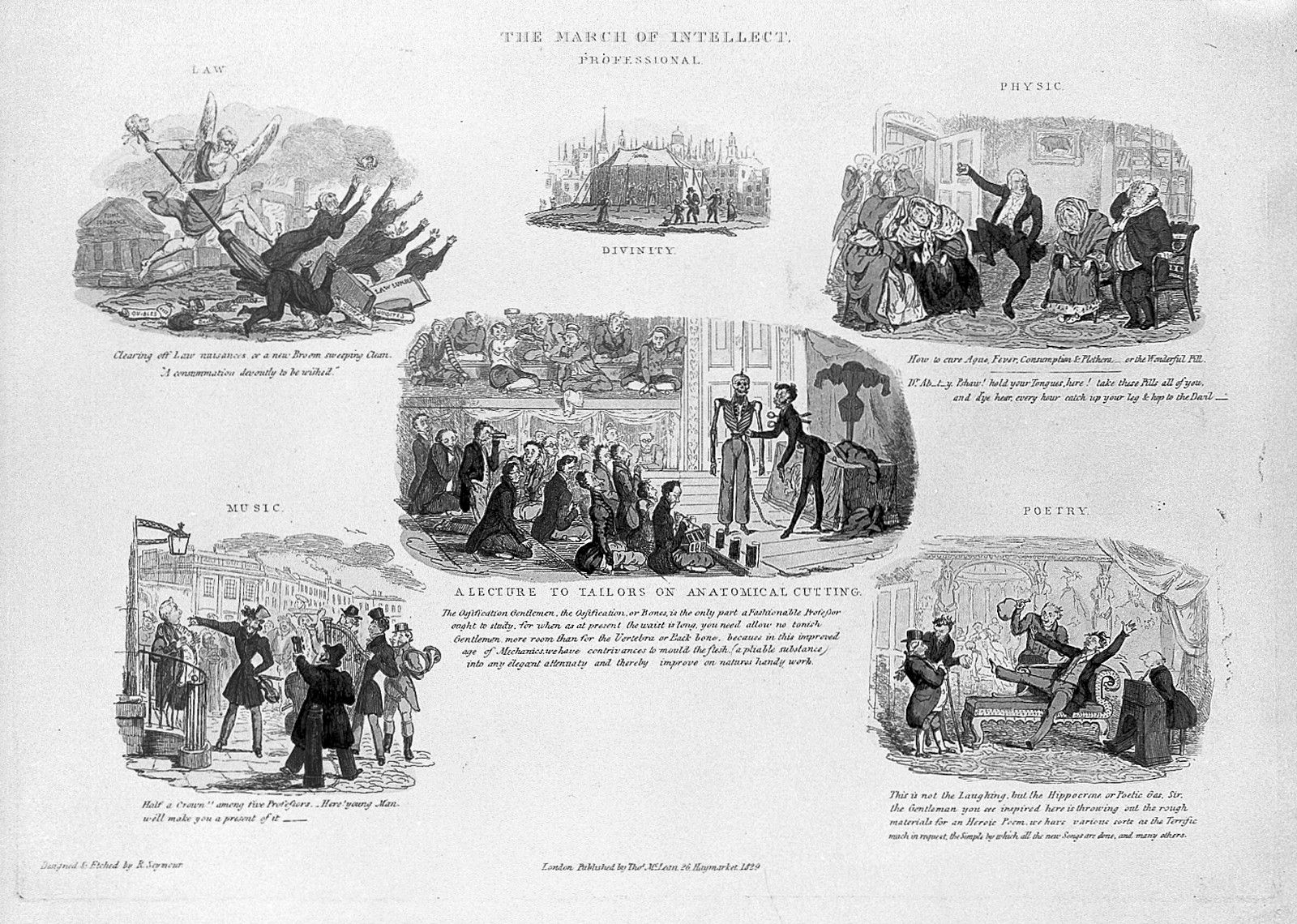 'The march of intellect. Professional' (includes caricature of Abernethy) Iconographic Collections Keywords: John Abernethy; R. Seymour